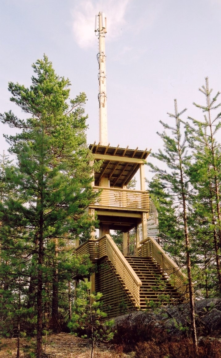 Mobile base station with panorama tower at Ormaasen, Øvre Eiker (Buskerud, Norway)